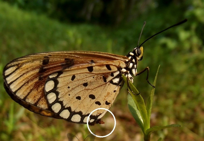 Tawny Coster female Showing sphragis